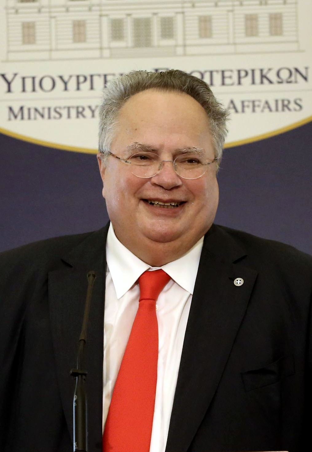 Nikos Kotzias, former Greek Ministry of Greece, when leaving office.